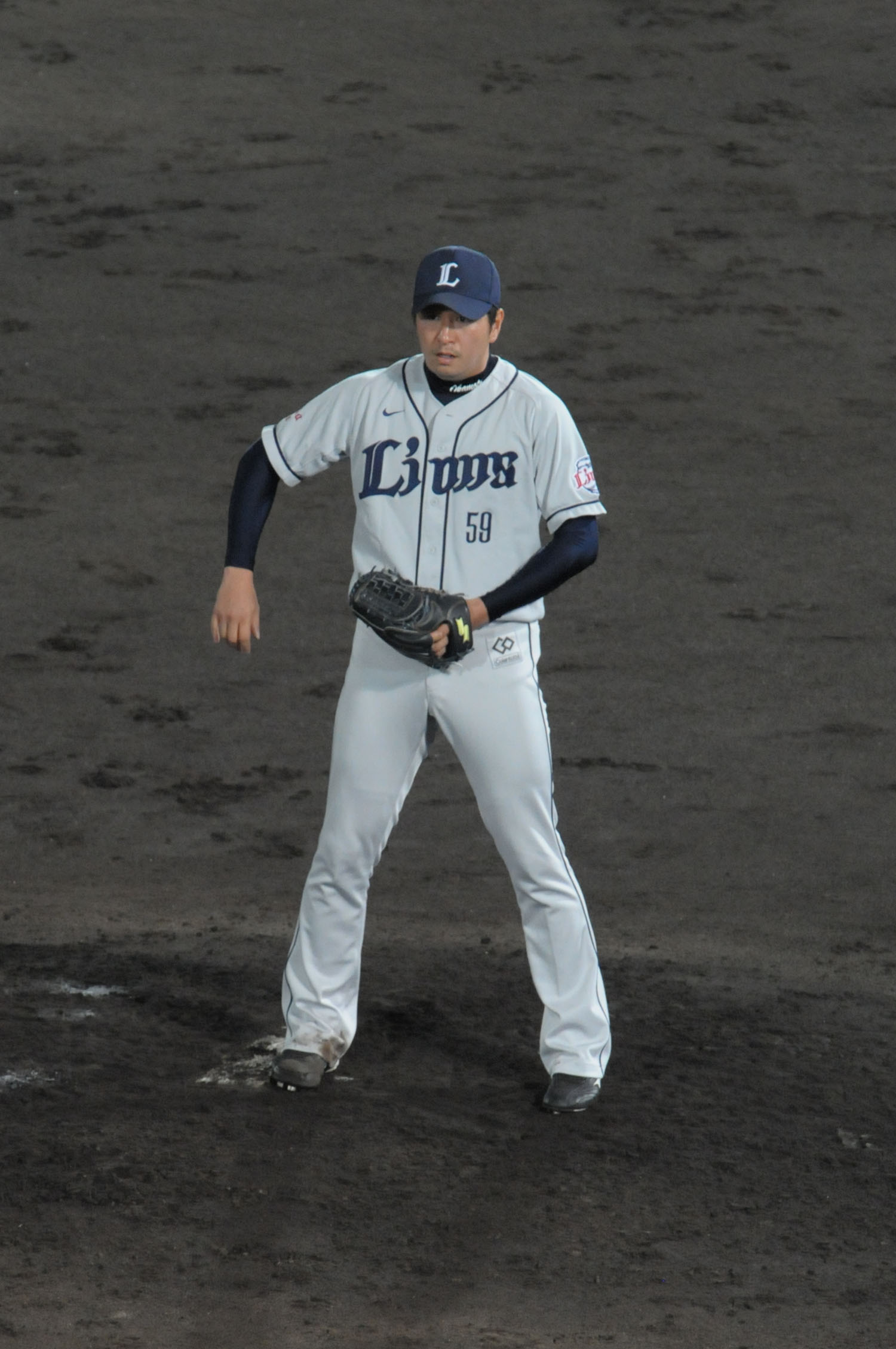 Atsushi Okamoto, pitcher of the Saitama Seibu Lions, at Akita Prefectural Baseball Stadium.